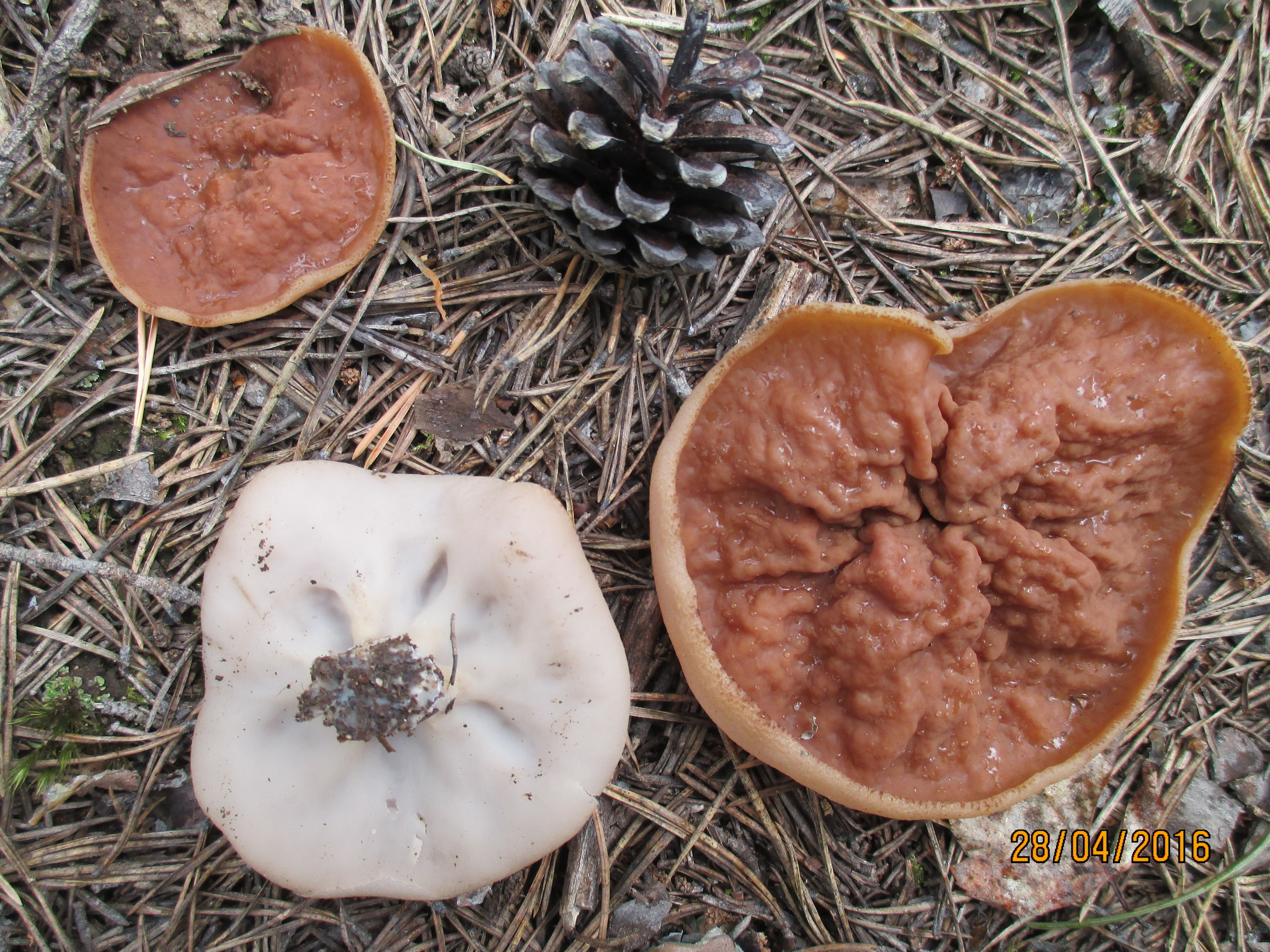 Gyromitra ancilis (Pers.) Kreisel Image location: Borovoye National Park, Akmola District, Kazakhstan Gyromitra ancilis (Pers.) Kreisel Helvellaceae, Pezizales (Pig’s Ears, Discina perlata, Дисцина щитовидная) Stalkless light-brown ear-shaped fragile mushroom Cup: 5-10cm wide ear-shaped with smooth surface, wrinkled and fragile; upper surface reddish-brown or yellow-brown, minor brownish-yellow, lower (bottom) surface whitish (brownish-white or yellowish-white when old). Flesh is whitish and brittle. Stalk: stalk is absent or it is stalk-like cup bottom curve. It grows on sandy soil with pine-tree needles minor in moose under pine-trees (pine-tree forest with some birches). It is often nearby False Morel and other Morel. Edibility: published that edible after short boiling. Season: April-May Recognized by sight For more information about this, see the observation page at Mushroom Observer.